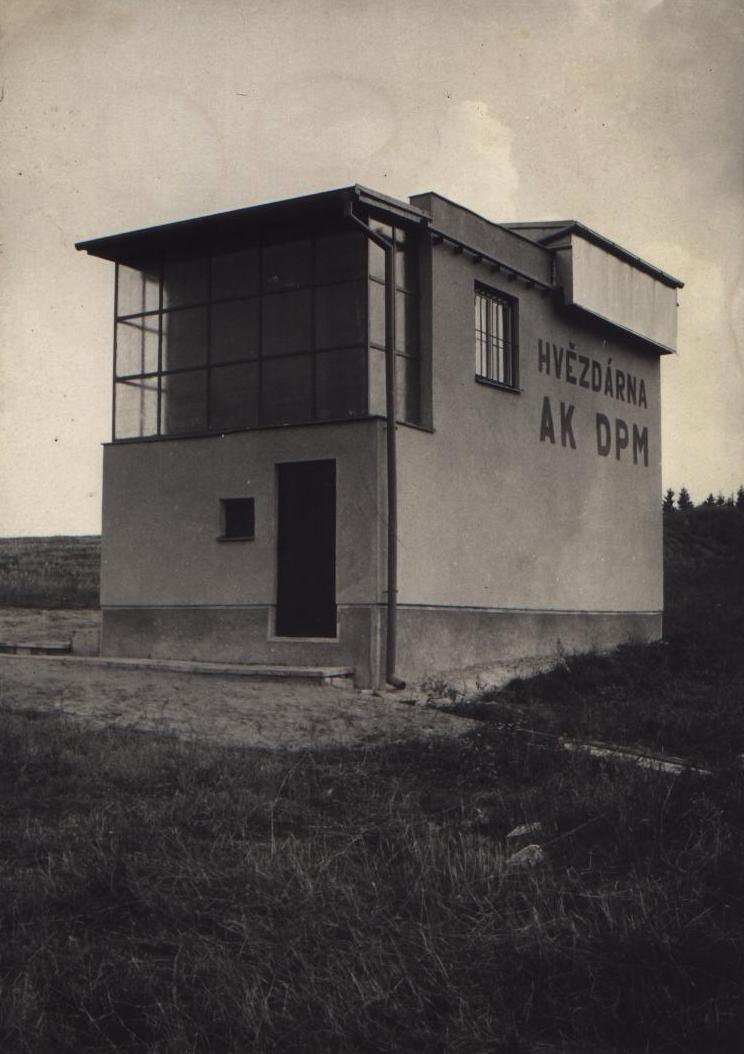 Observatory after the completion